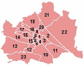 Numbered map of the 23 Districts of Vienna, with 35% larger numbers.